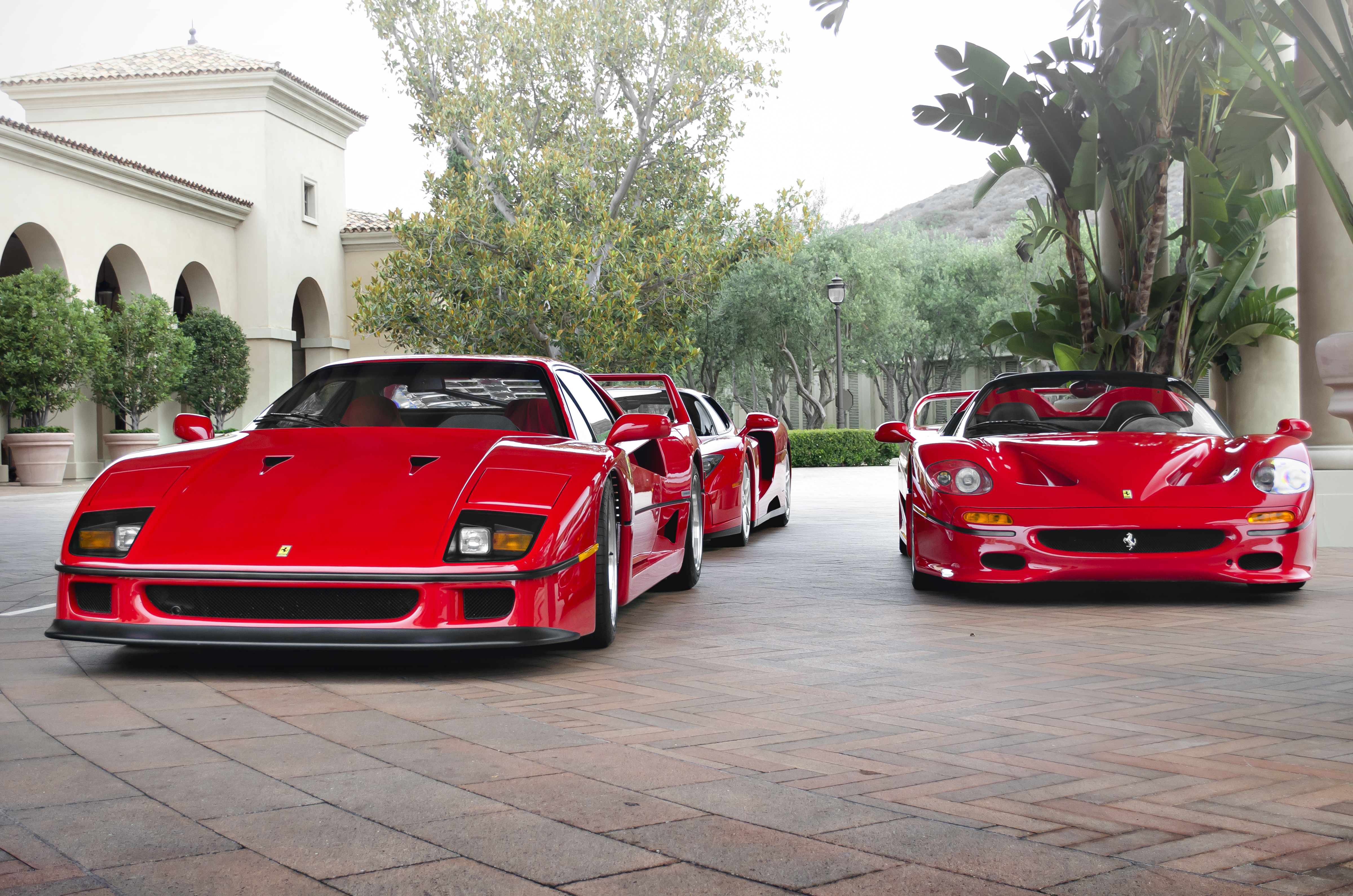 Ferrari F40, F50, and Enzo (cc) Creative Commons Personal and Commercial with Attribution. If you use this photo make sure you source with a link back to my site at